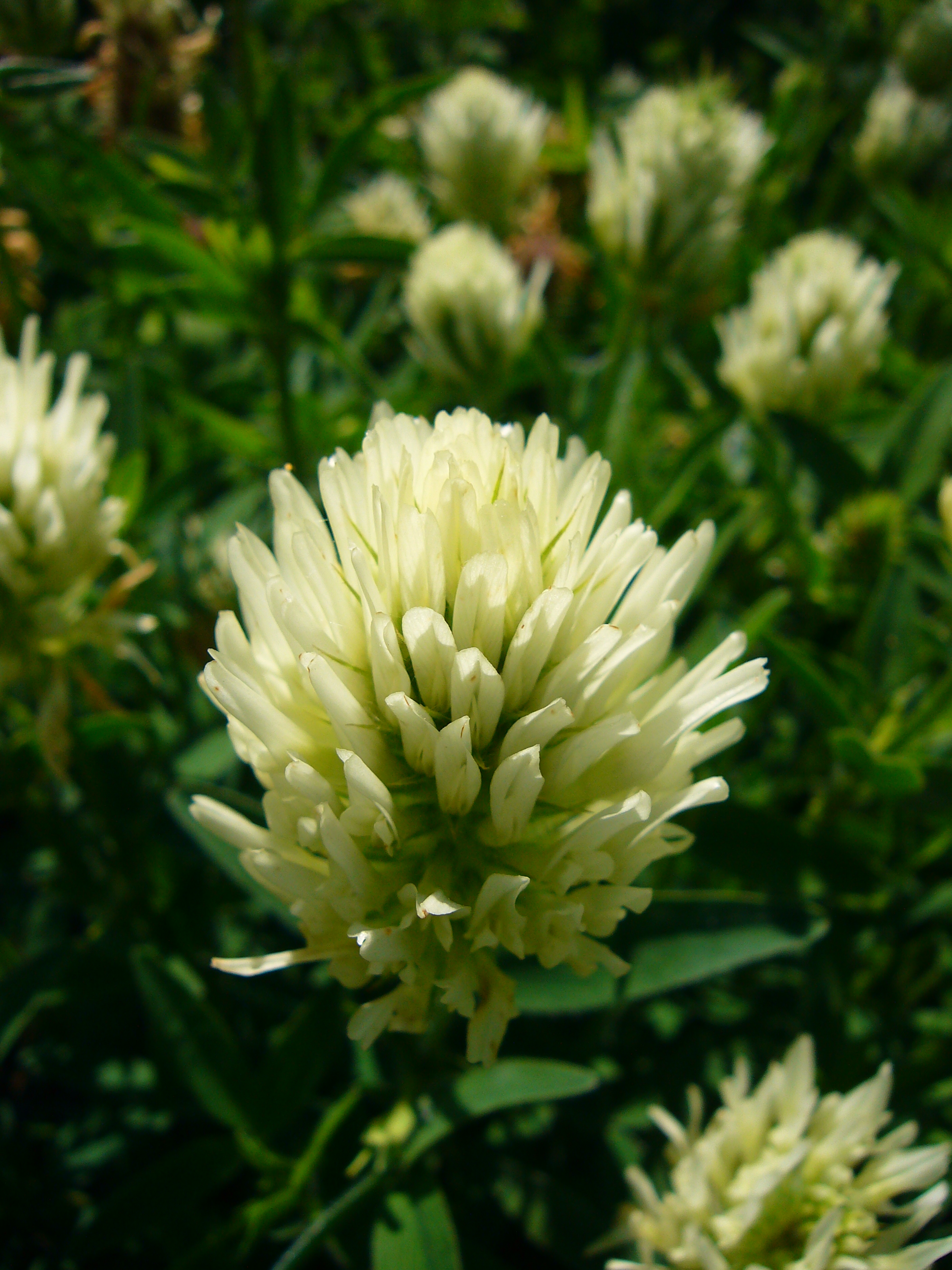 Trifolium pannonicum "hungarian clover" (flower) (photo taken in the Cambridge University Botanic Garden)